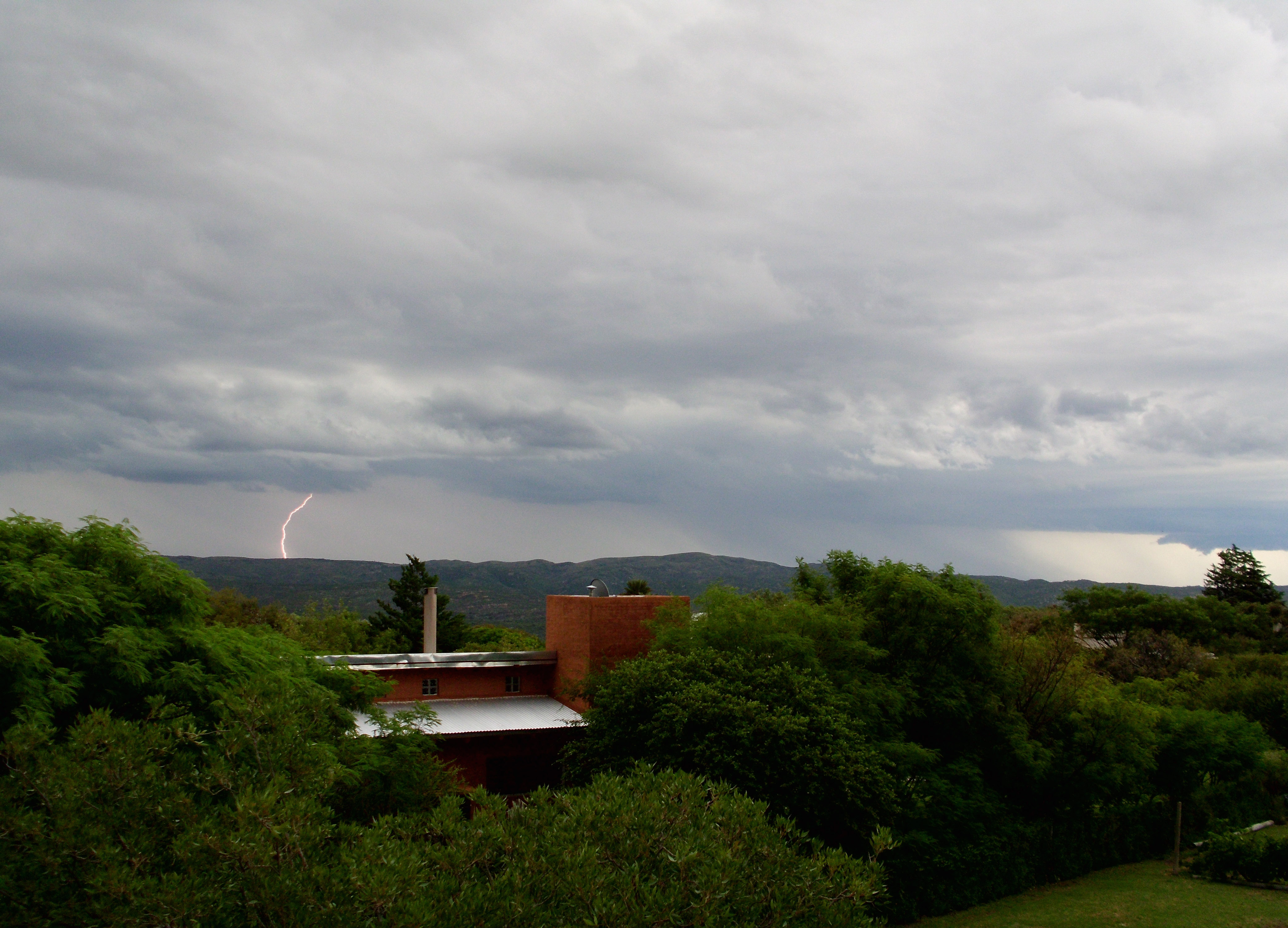 Classic thunderstorm, with lightning. In the summer 2013. Argentina. Los cocos, province of Córdoba.